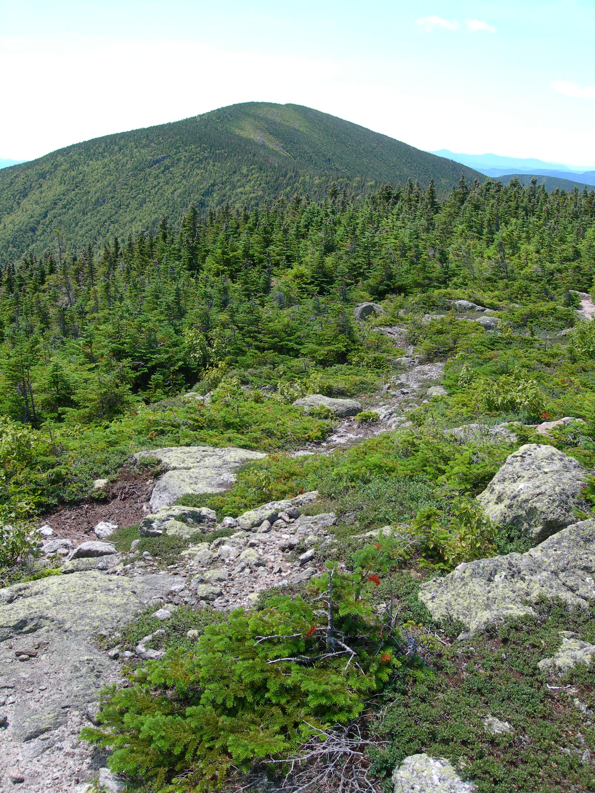 Carter Dome seen from Mt. Hight, NH, with Abies balsamea krummholz